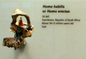 SK 847. Homo habilis sensu lato or Homo erectus. Taken at the David H. Koch Hall of Human Origins at the Smithsonian Natural History Museum.